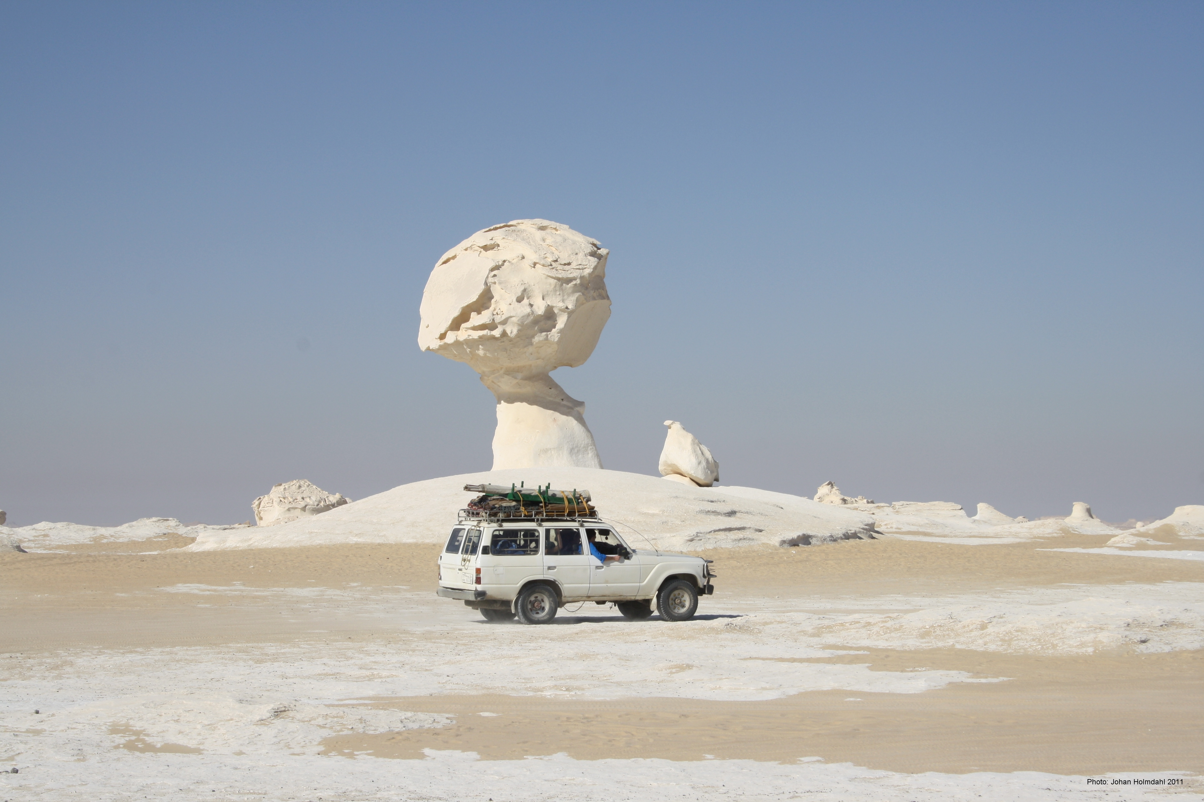 Rock formation at White Desert, Egypt.